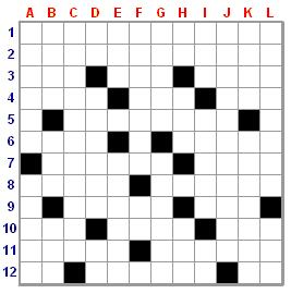 fench crossword